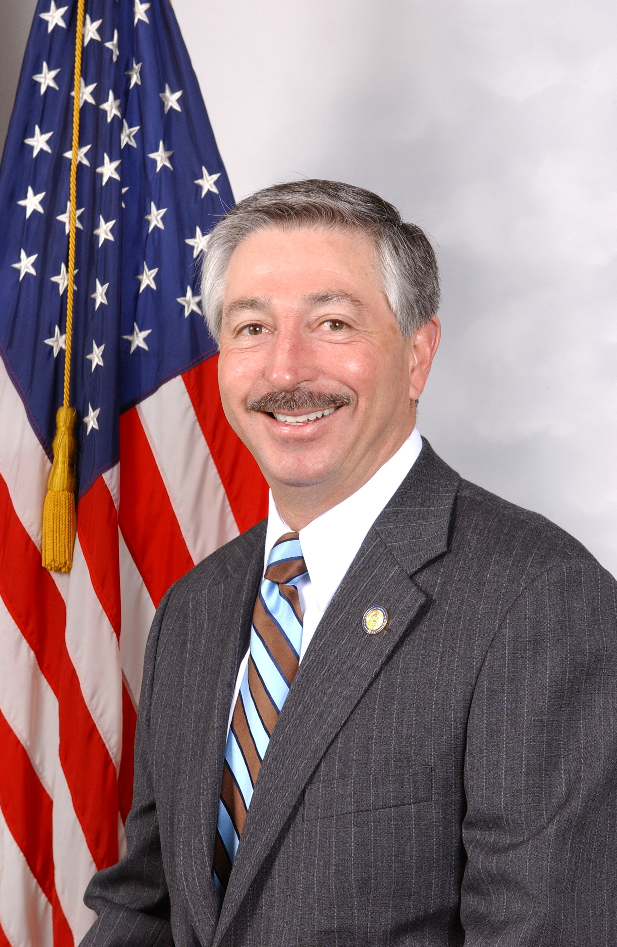 Rep John Salazar from Colorado